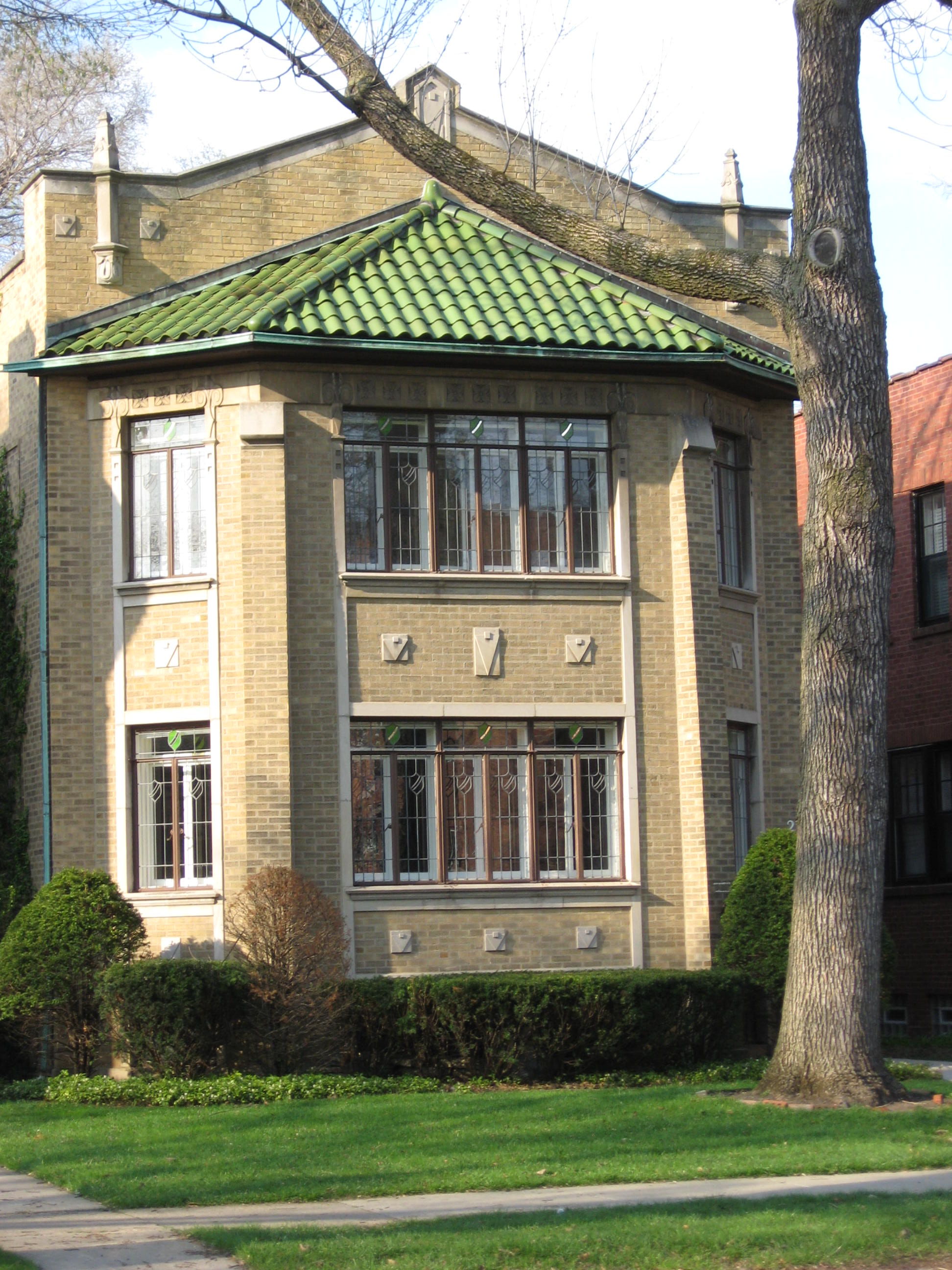 2517 Central St Evanston, IL 60201